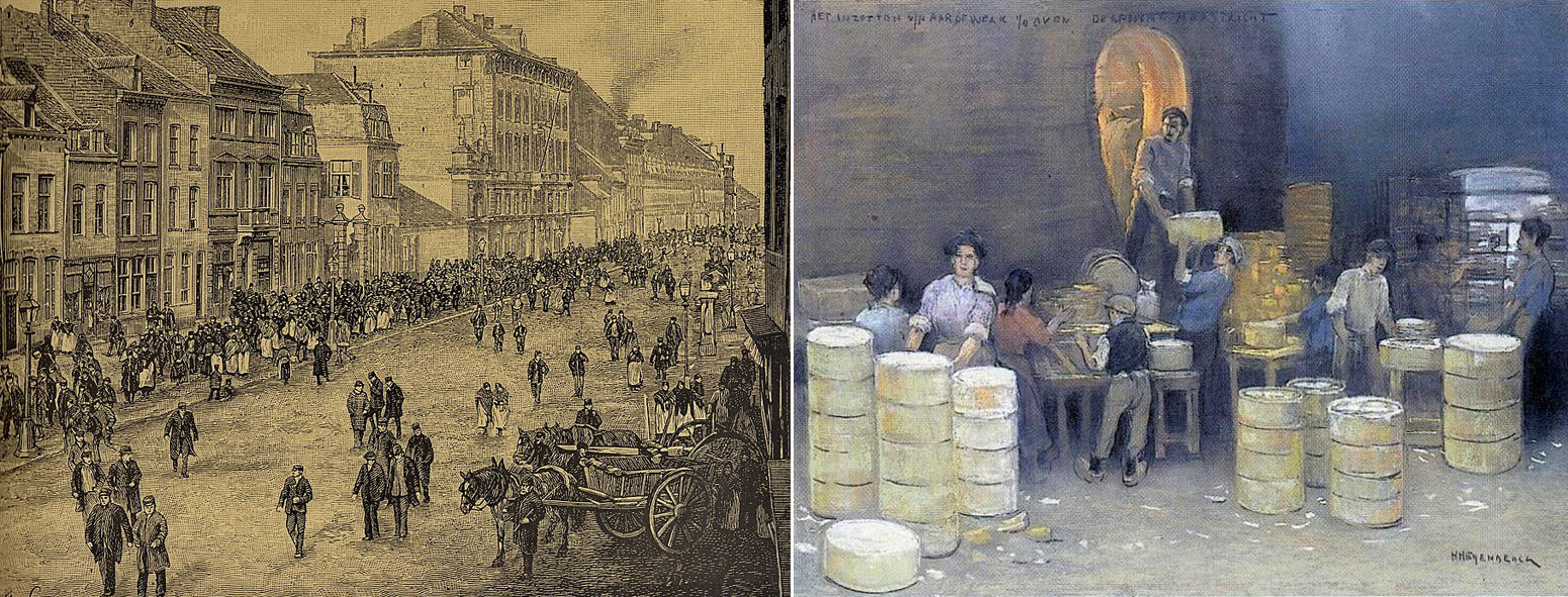 Collage van twee afbeeldingen met als onderwerp de fabrieken van Petrus Regout in Maastricht. Collage door Kleon3 samengesteld uit twee rechtenvrije bestanden op Wikimedia Commons: File:Maastricht, Boschstraat, 1887.jpg File:Herman Heijenbrock, Sphinxfabriek Maastricht (2).jpg